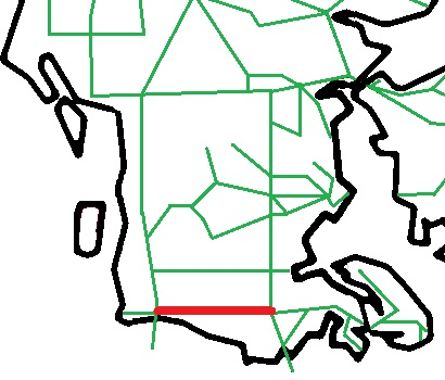 Map of railways in Southern Jutland in Denmark with the state railway Tønder-Tinglev-banen in red.